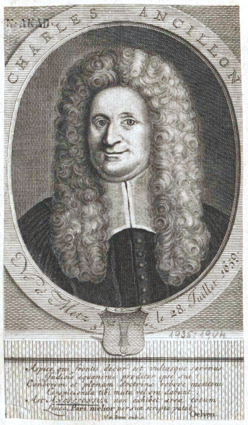 Portrait of Charles Ancillon (1659-1715).